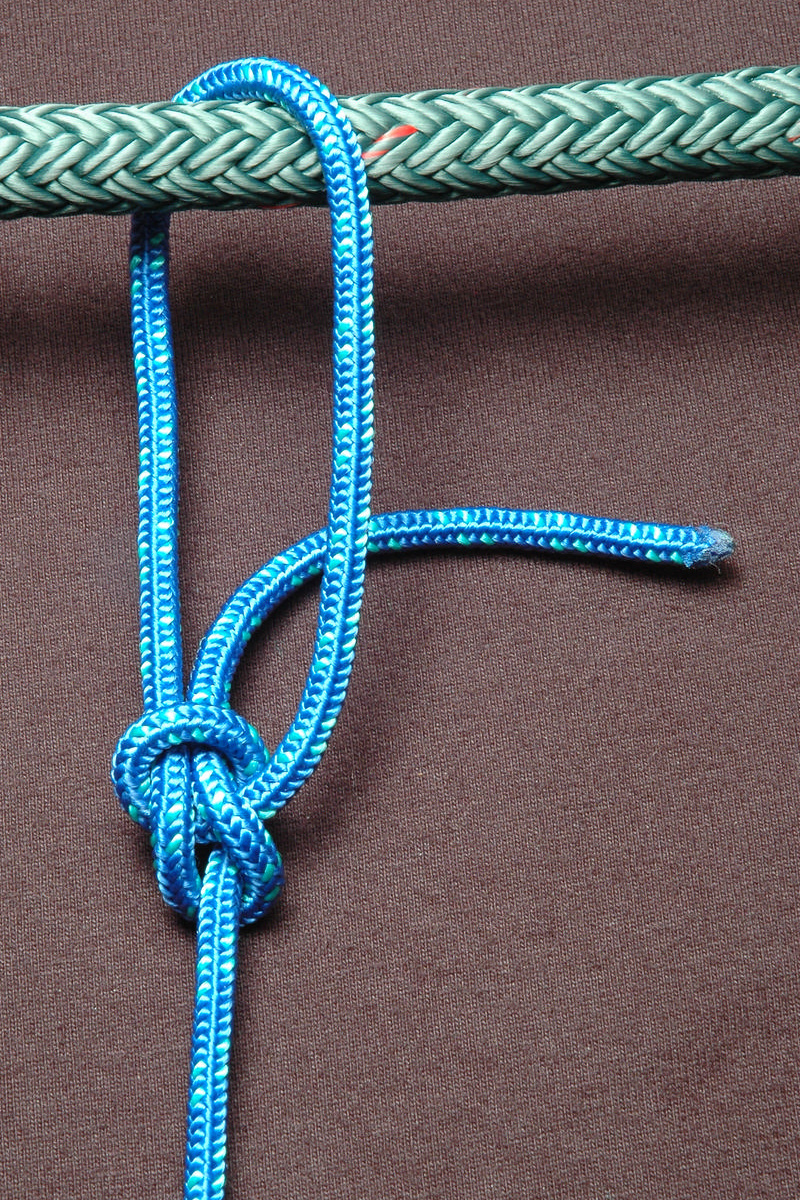 The Bowline